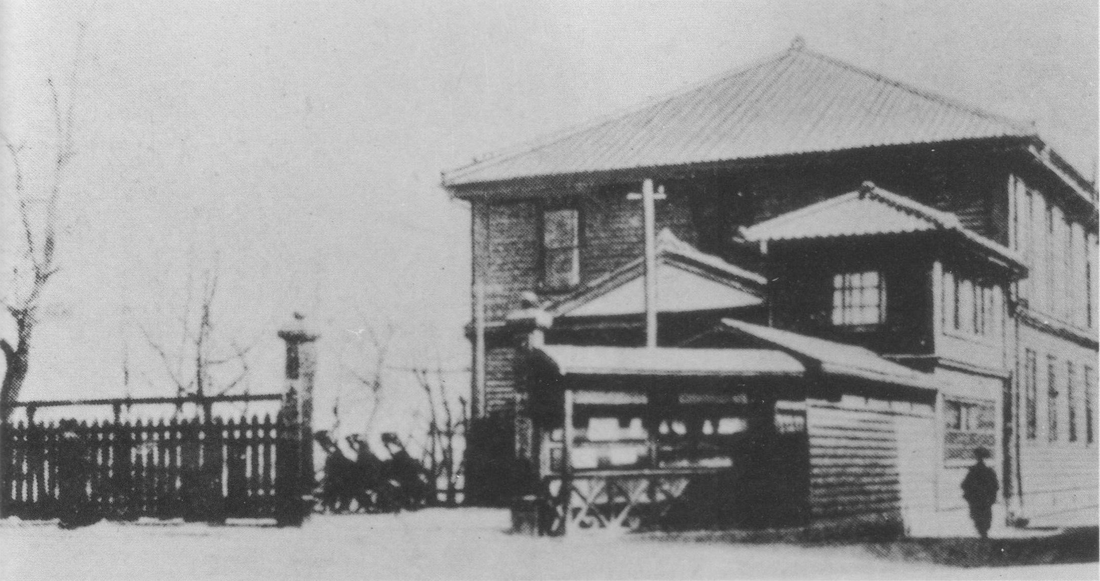 Osaka City Hall Main Building (1899).